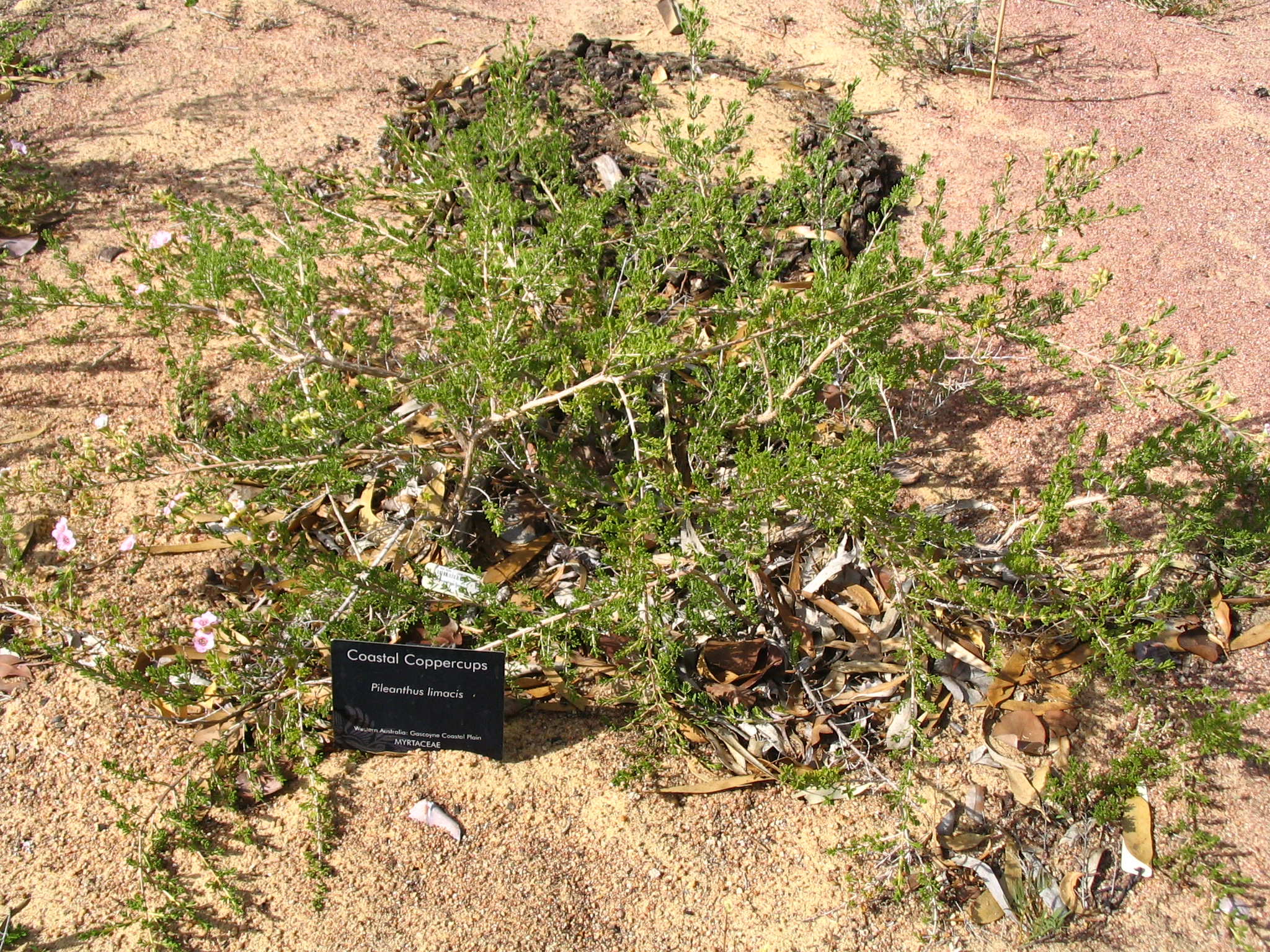 Coastal Coppercups (Pileanthus limacis) plant in Kings Park, Perth, Australia.